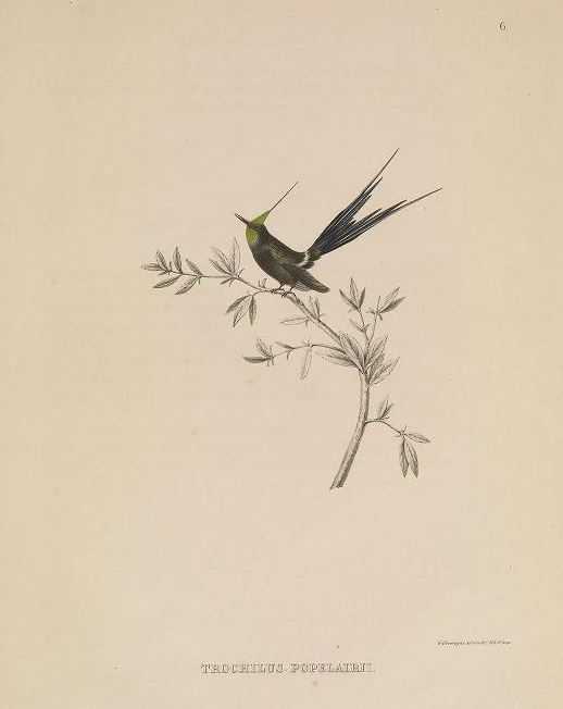 Trochilus popelairii =Discosura popelairii Illustration by Georges Severeyns